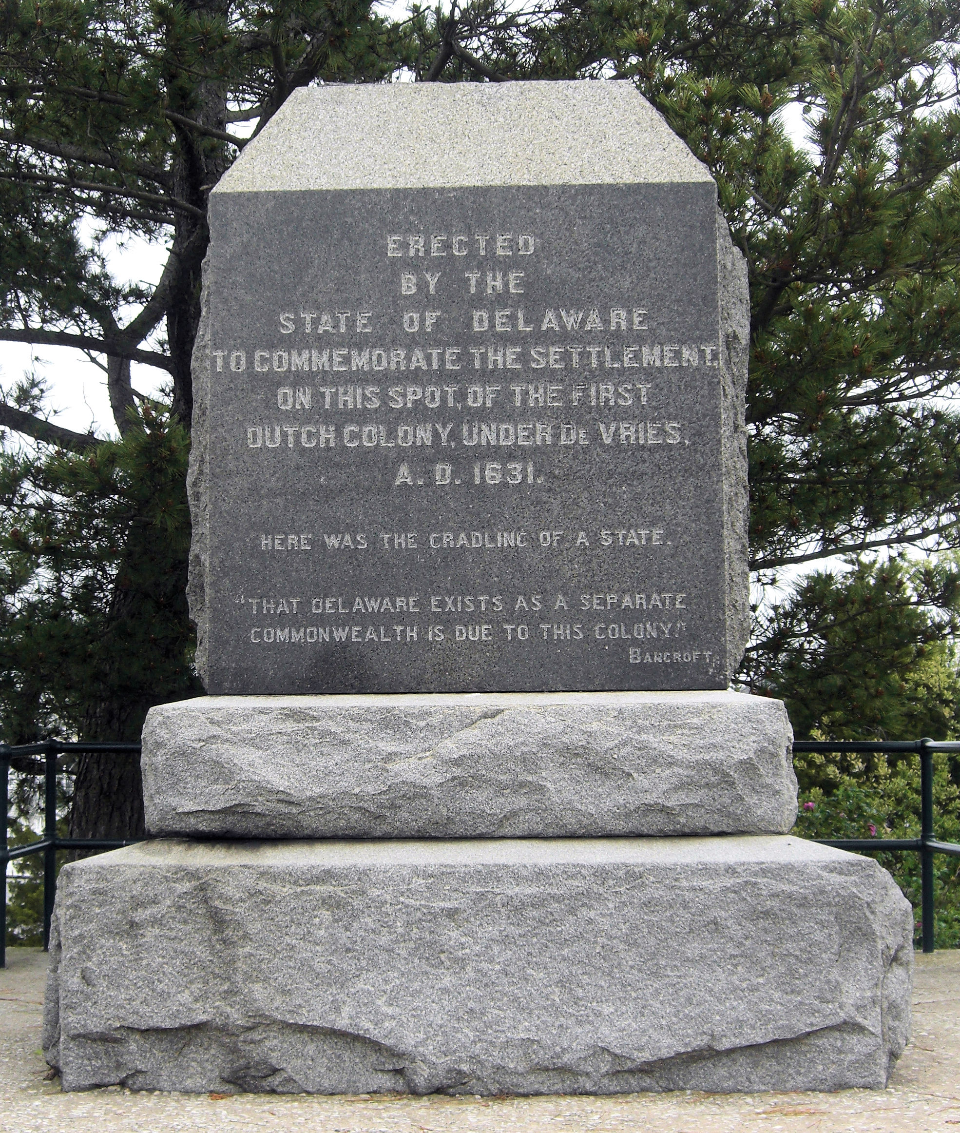 Commemorative monument to the first Dutch colony in North America.